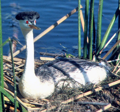 Clarks Grebe (Aechmophorus clarkii) on the nest